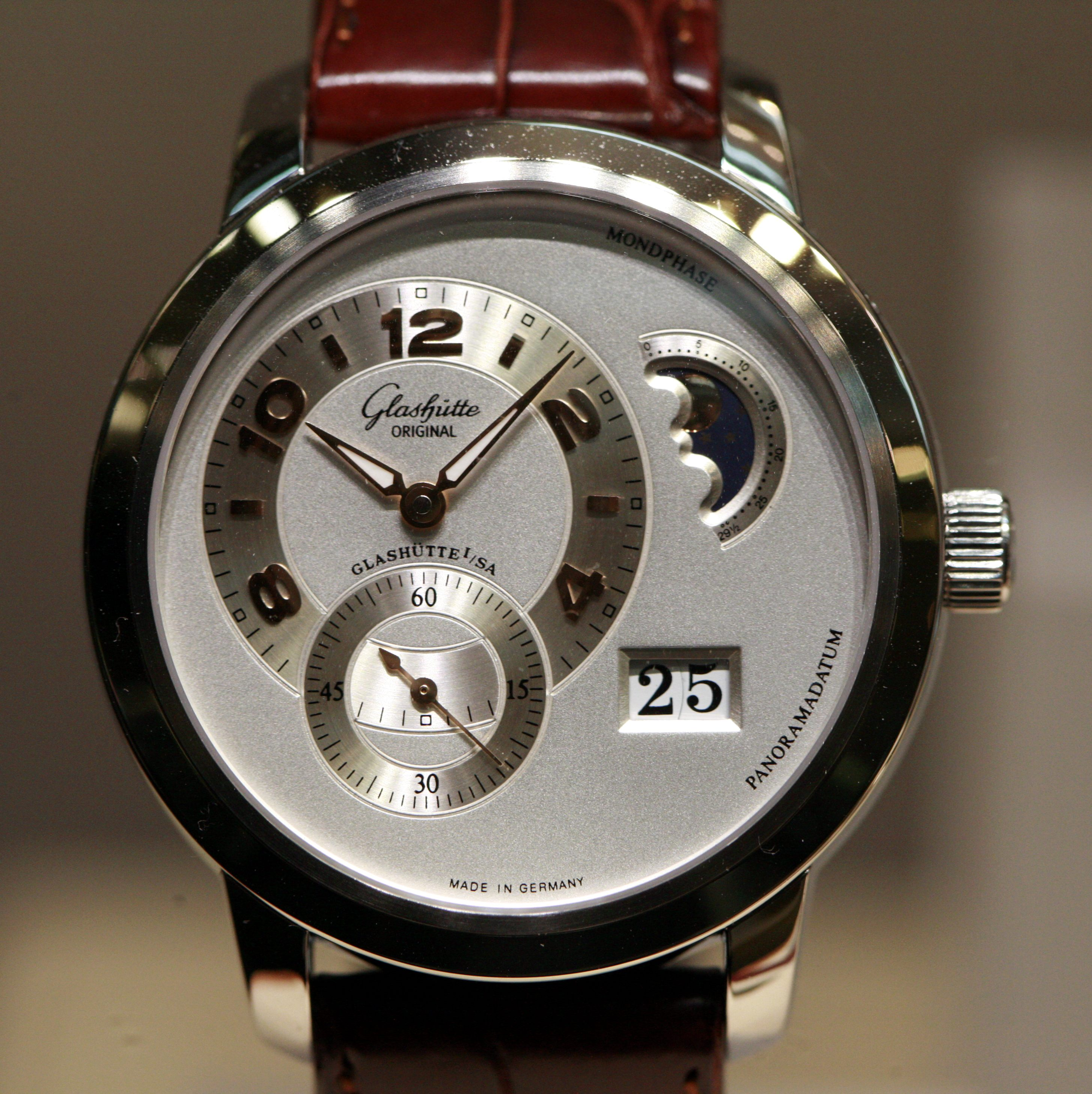 Glasshütte Original watch, model PanomaticLunar